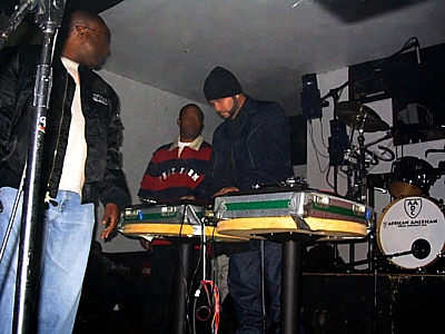 Hip hop producer and DJ Julio G (center) DJing during his set performance with radio personality Greg Mack (far left) looking over at the 1580 AM KDAY 20th anniversary event at Club Ibiza in Whittier, California on December 13, 2003.The photograph was taken with a Canon PowerShot A70 camera and edited using ArcSoft PhotoStudio 5.5